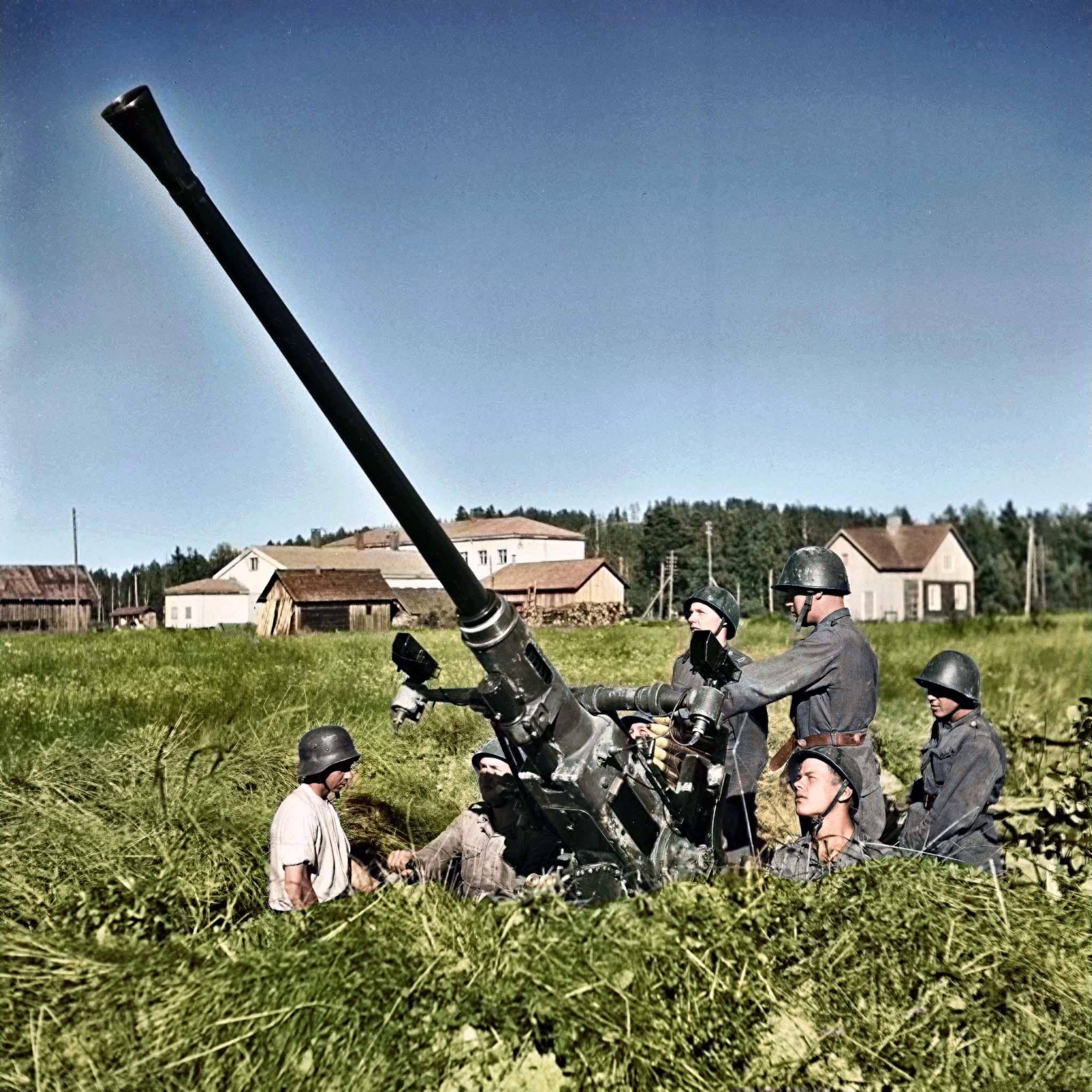 Bofors 40 mm gun, Harlu 1944